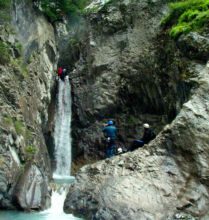 Canyoning the La Cappella section of the Quartzite Corridor canyoning route, high in the Colorado Rocky Mountains.